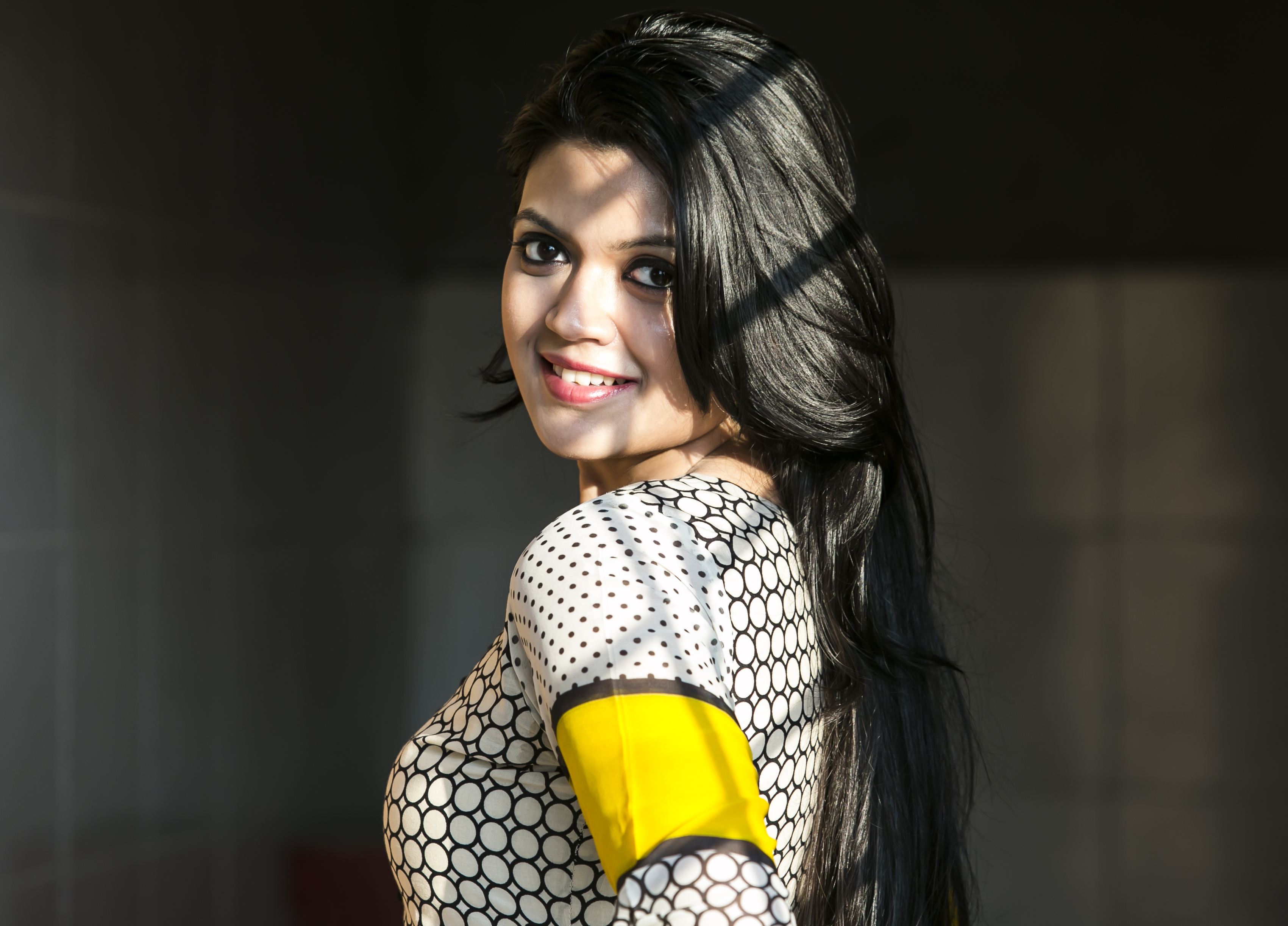 Masuma Rahman Nabila is a Bangladeshi television presenter and model.